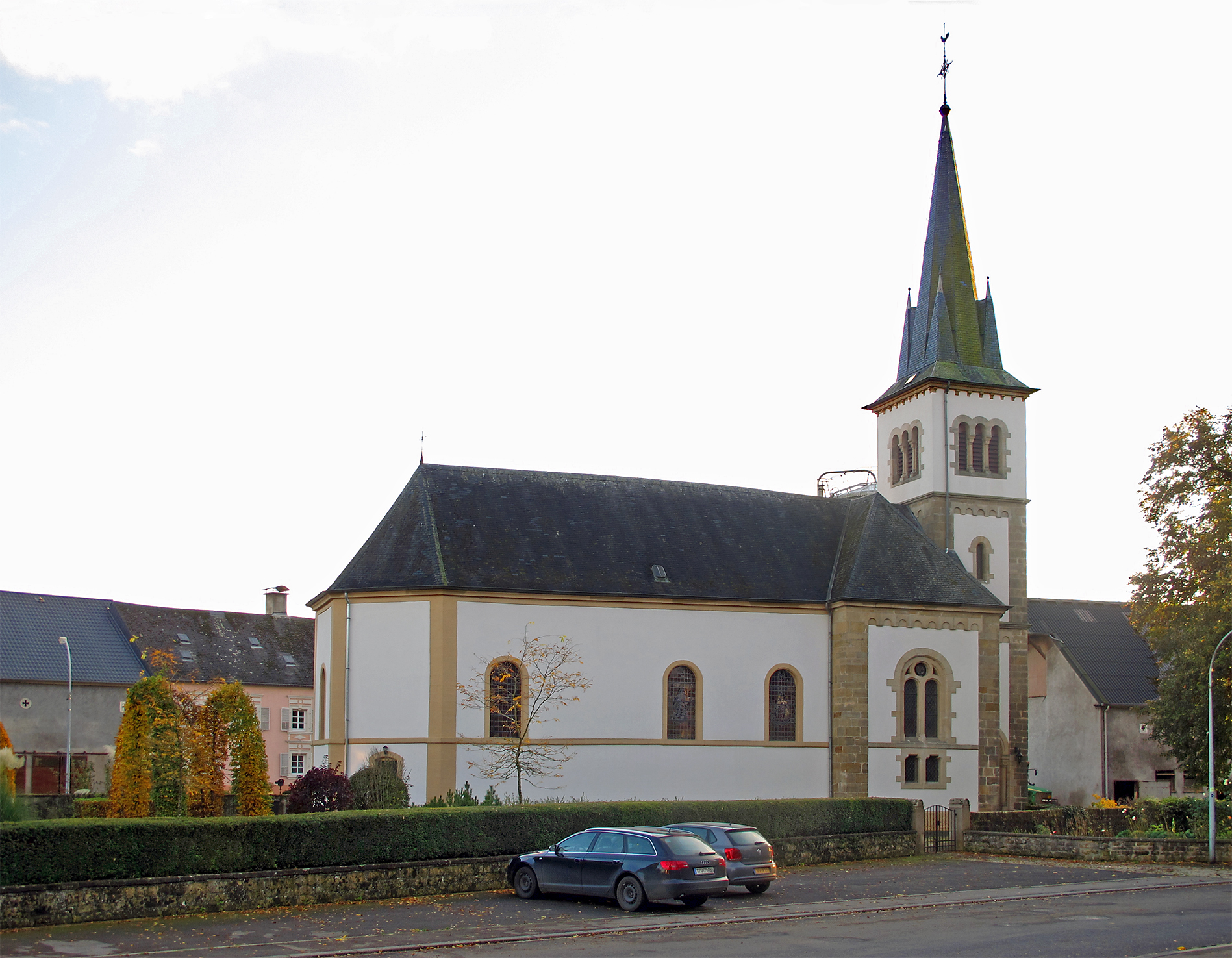 Church of Beidweiler, Luxembourg